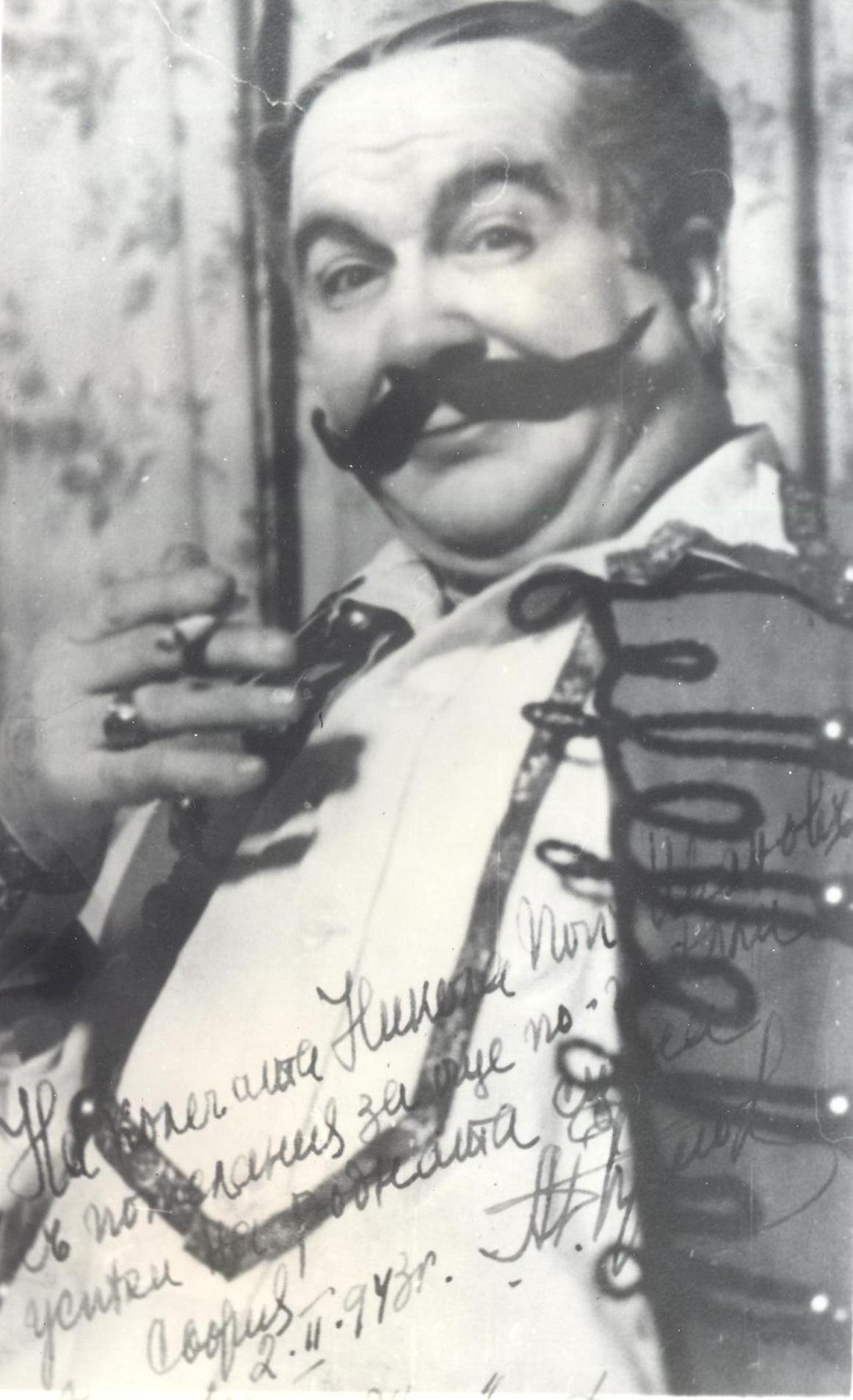 Asen Ruskov